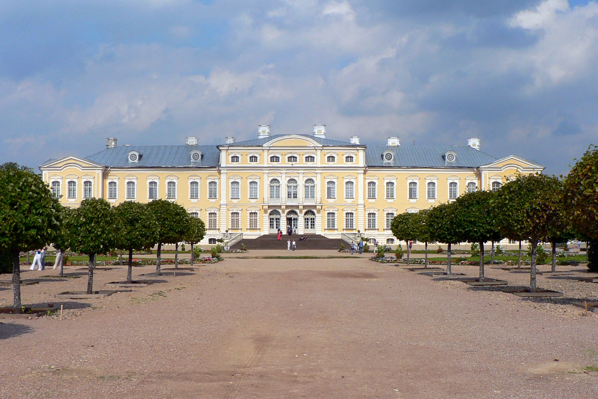 Rundāle palace seen from the garden side, Latvia.